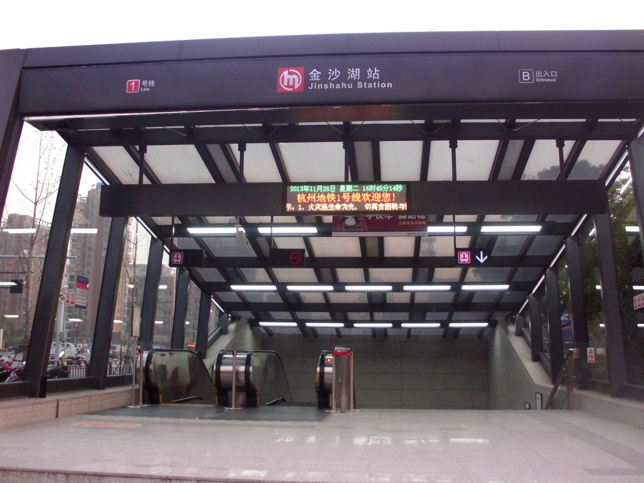 Jinshahu Station